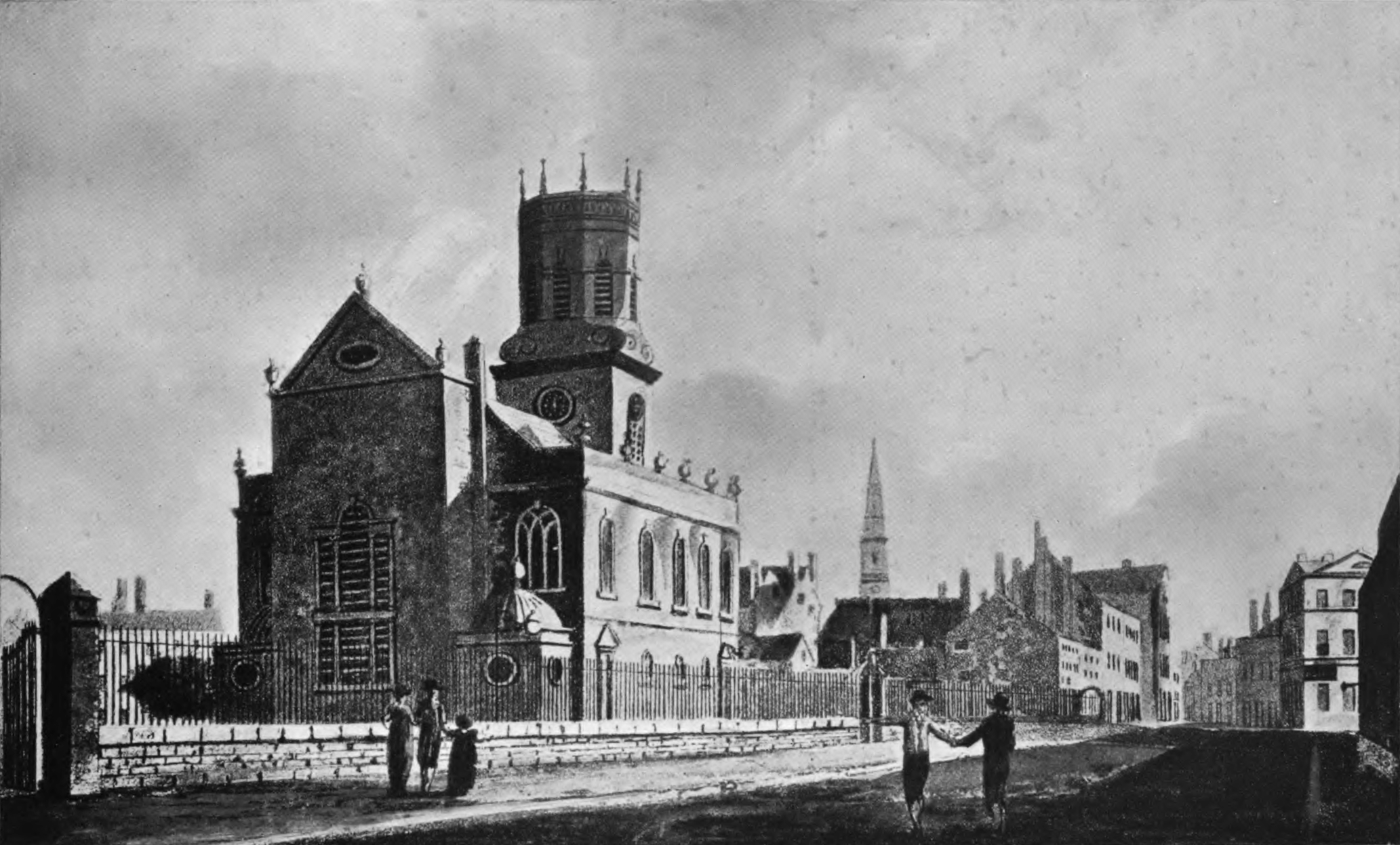 St Peter's Church, Liverpool looking West along Church Street towards Lord Street in 1800. Drawn by W. H. Watts, Engraved by W. Green.